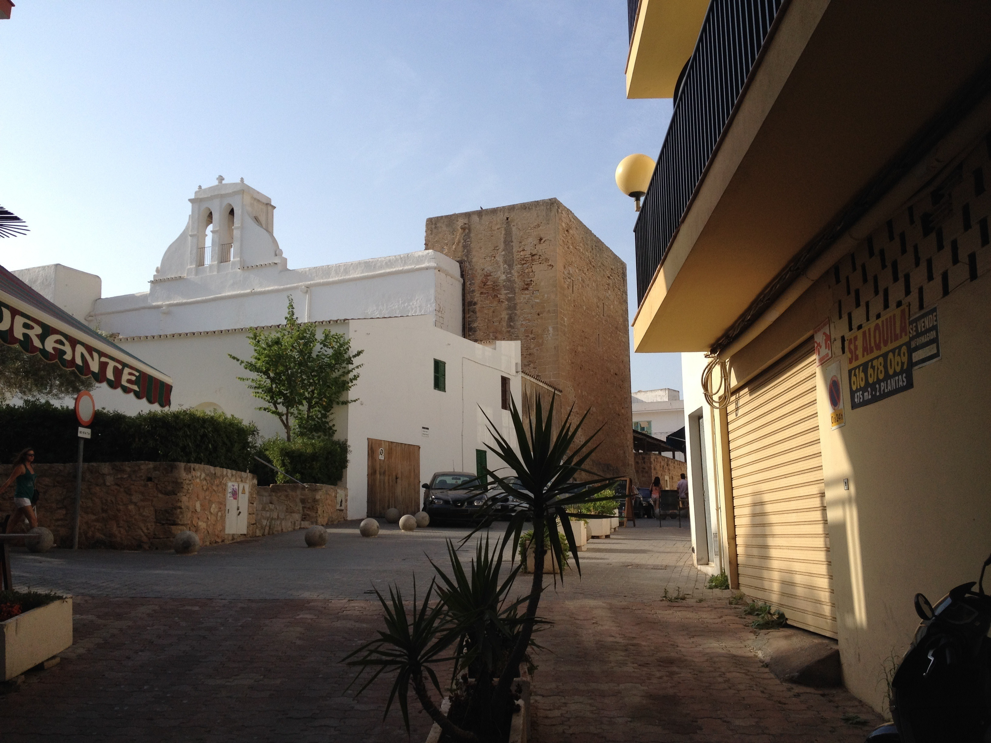 Church of Sant Antoni de Portmany, Eivissa with fortification